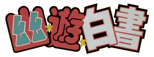 Logo of Yu Yu Hakusho anime series.